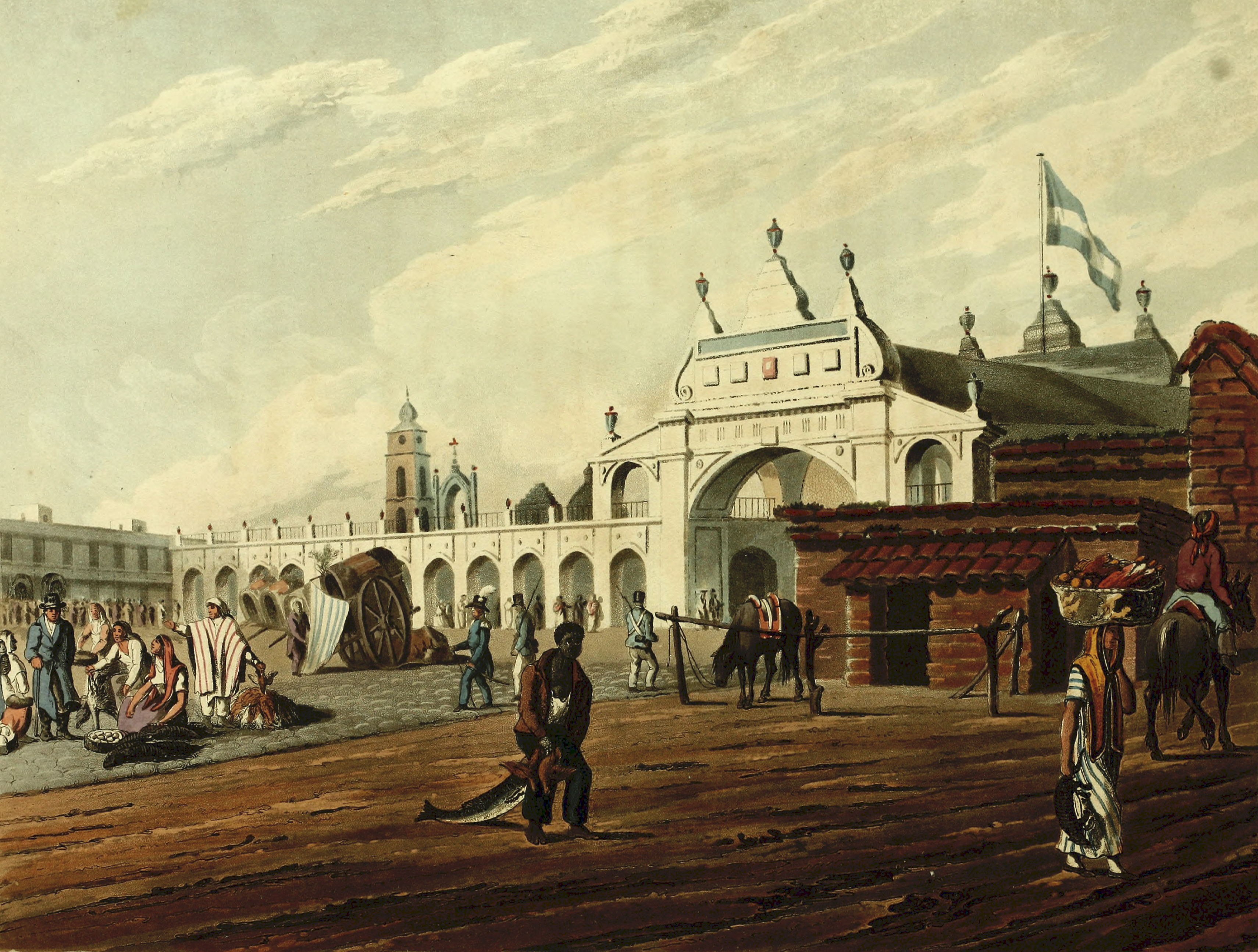 The main market place in Buenos Aires. In the centre foreground an Afro-Argentine brings an enormous 'dorado' fish (Salminus brasiliensis). In the background is the newly designed Argentine flag.